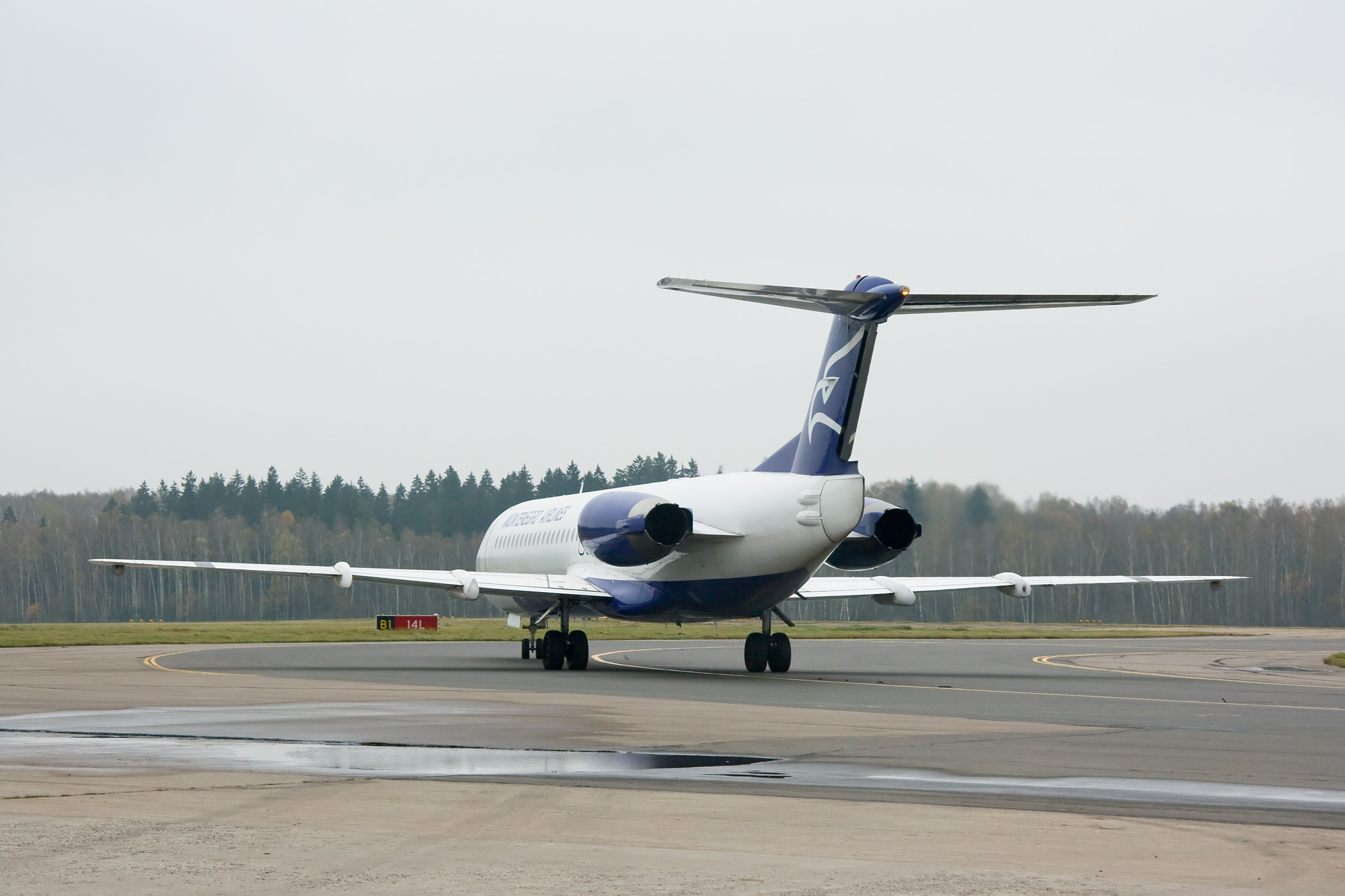 Fokker-100 F-28-0100